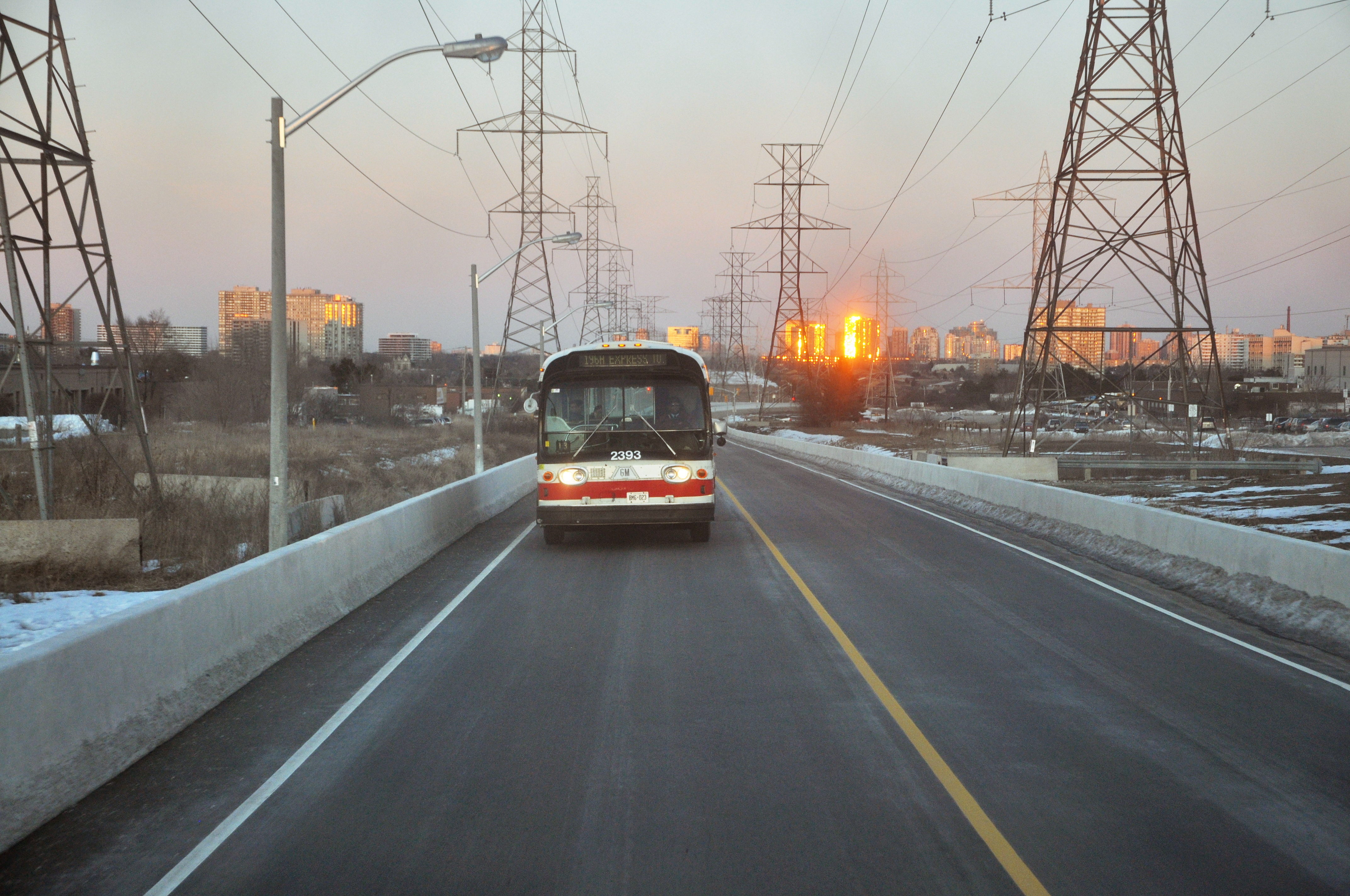 A GM New Look heads west on the York University Busway at sundown.